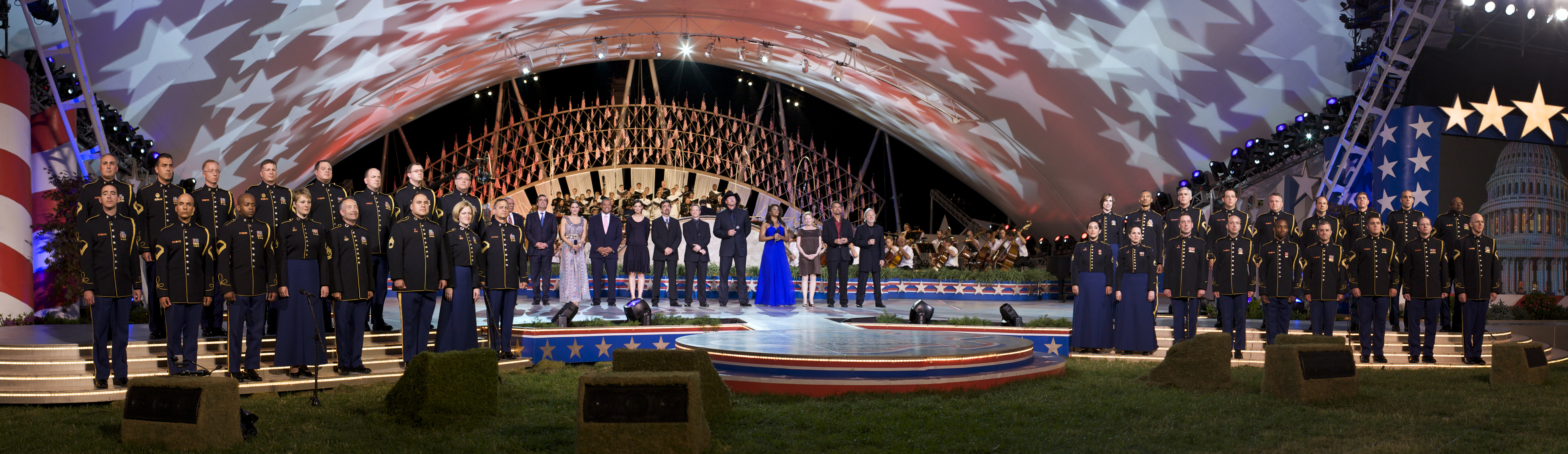 The Soldiers' Chorus of The United States Army Field Band performs alongside a long list of celebrities at the 2009 National Memorial Day Concert, held on the ground of the United States Capitol in Washington, D.C., in the United States in 2009. See more at Army.mil